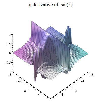 q derivative of sin(x) 3D plot